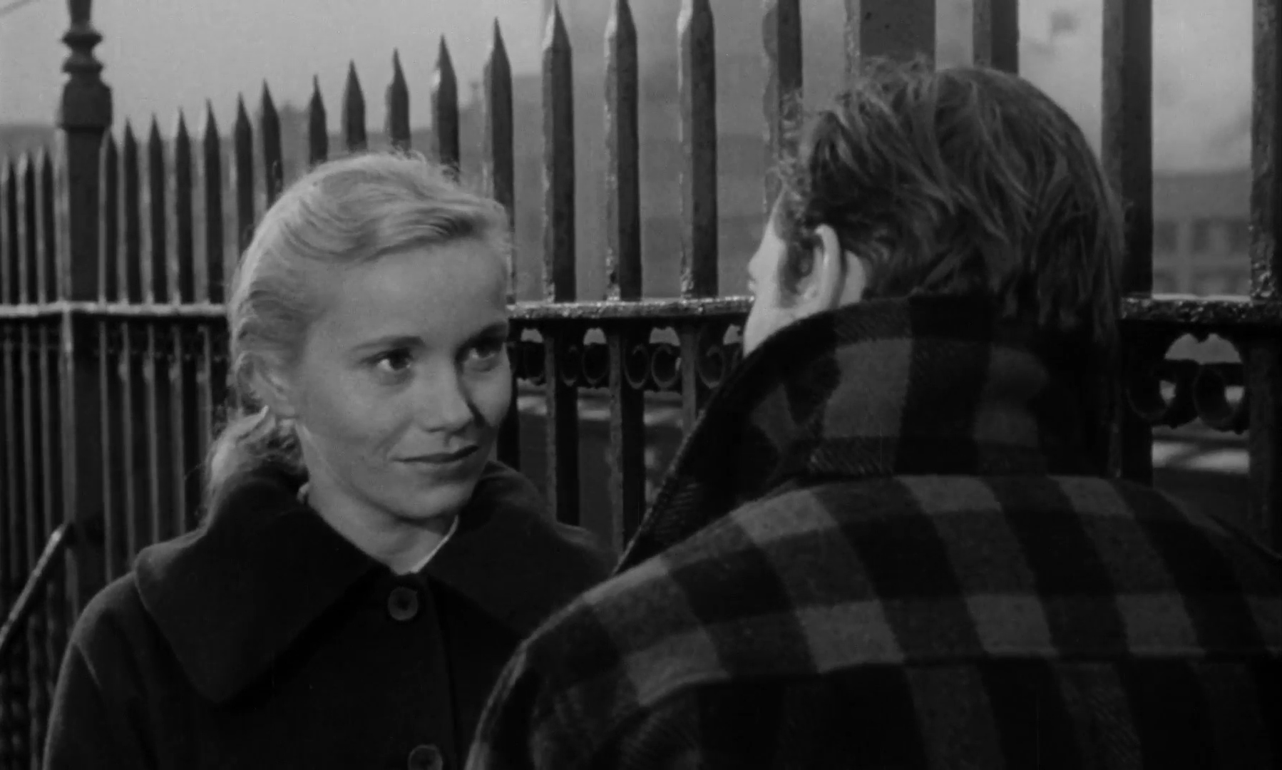 Marlon Brando and Eva Marie Saint in a screenshot from the trailer for the film On the Waterfront.